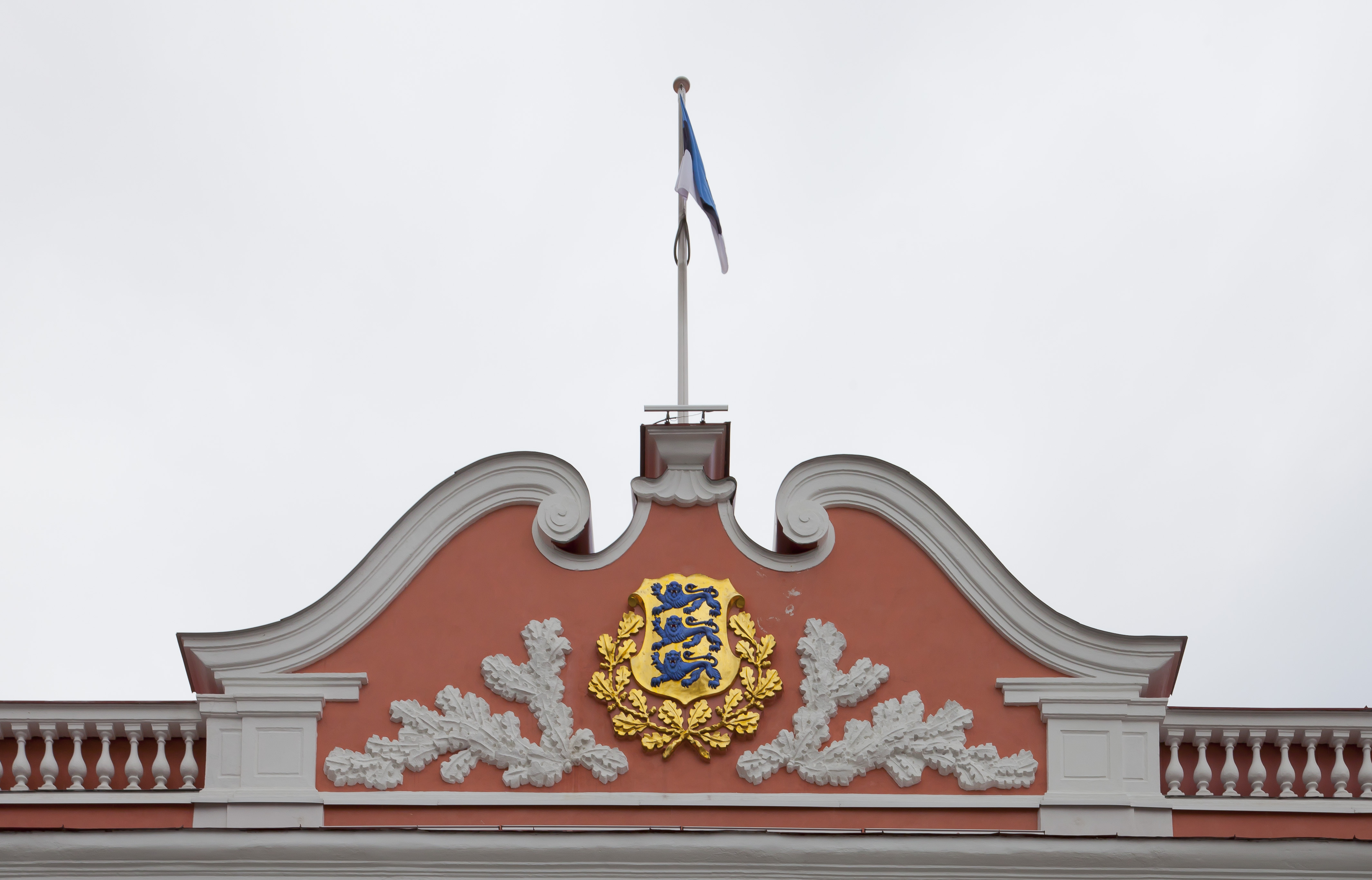 Estonian Government, Tallinn, Estonia